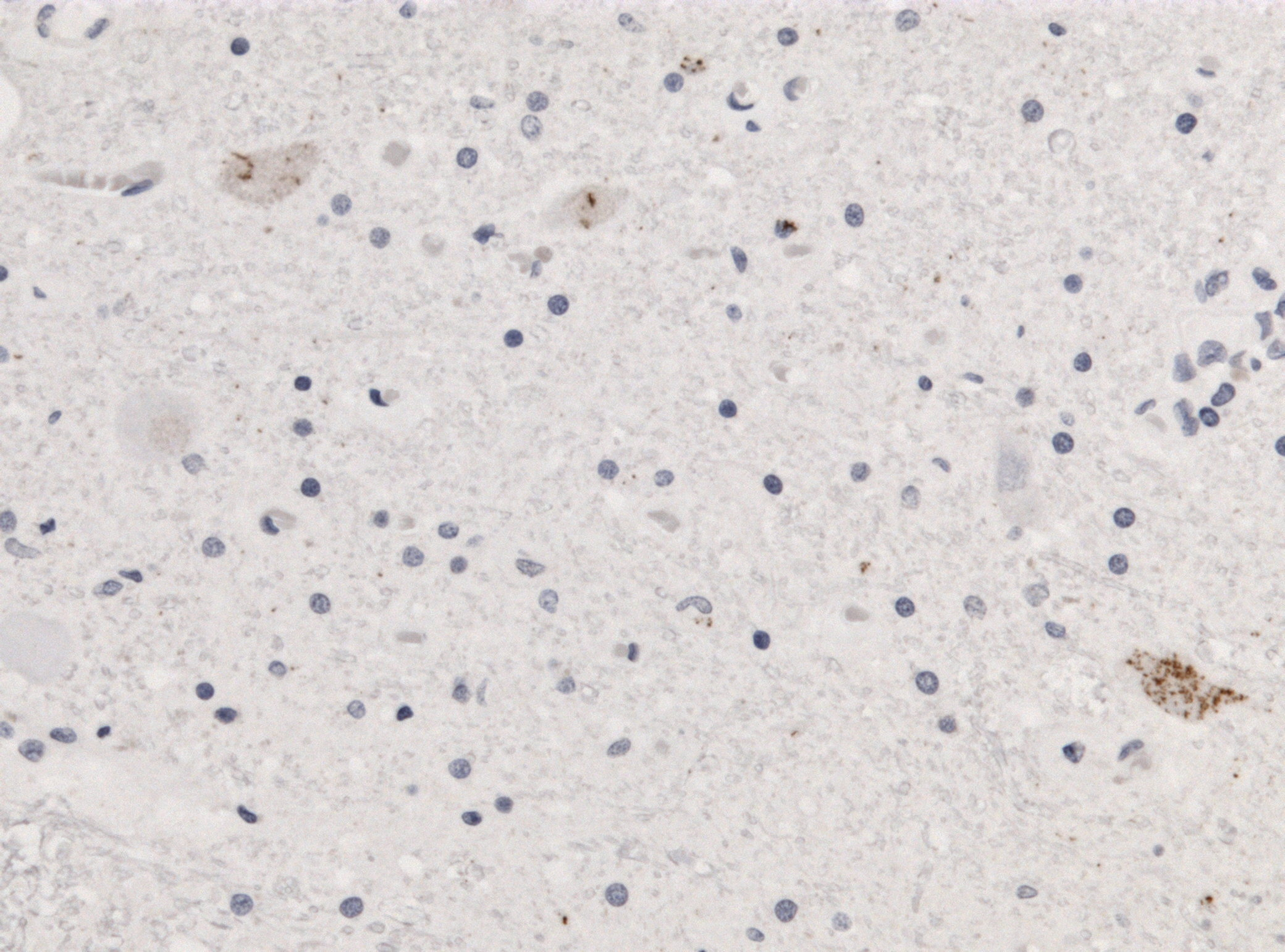 Immunohistochemistry specimen of Amyotrophic lateral sclerosis (ALS-TDP) showing TDP-43-positive inclusions (brown) in motor neurons.